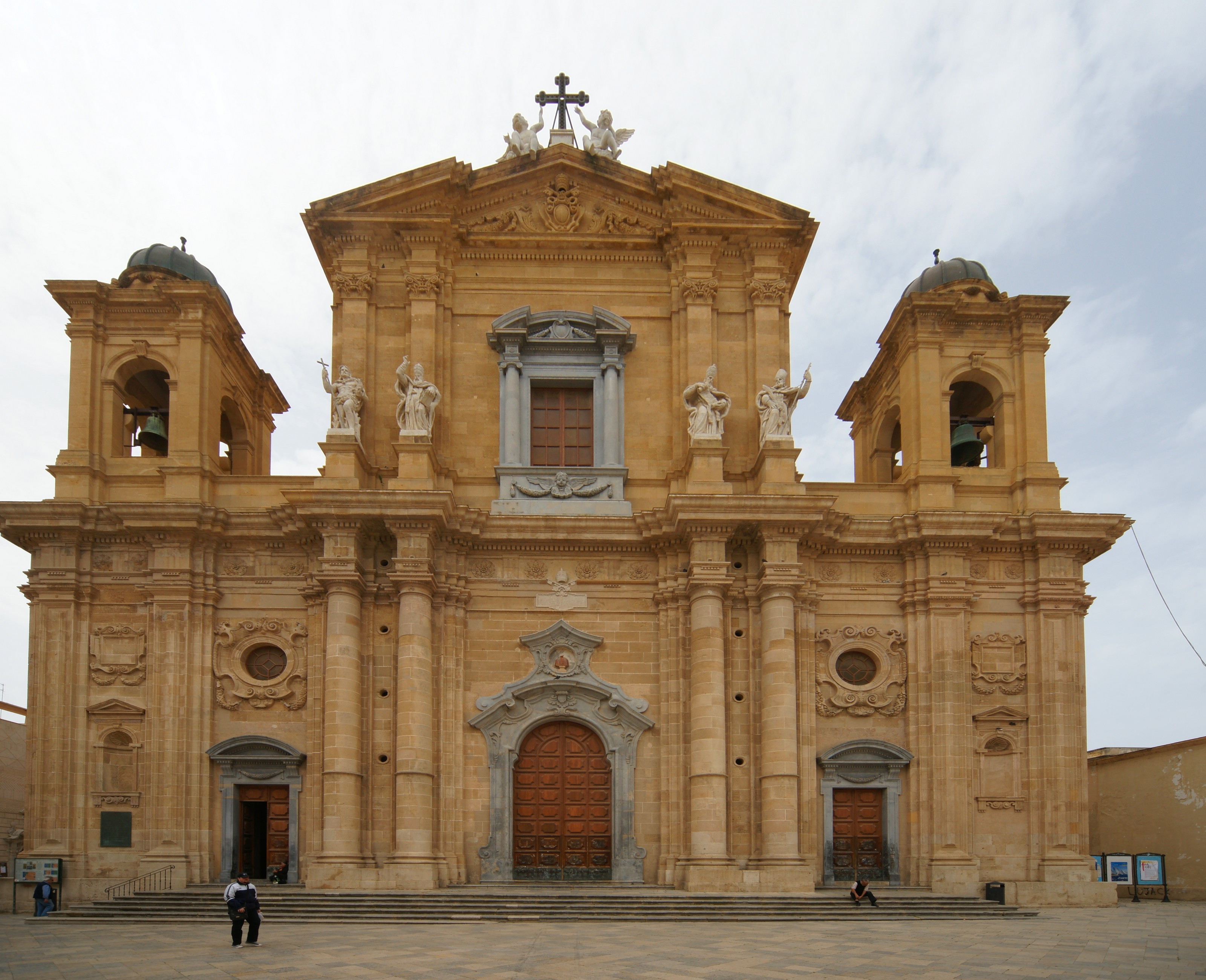 Marsala: Chiesa Madre